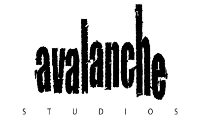 Avalanche Studios logotyp.